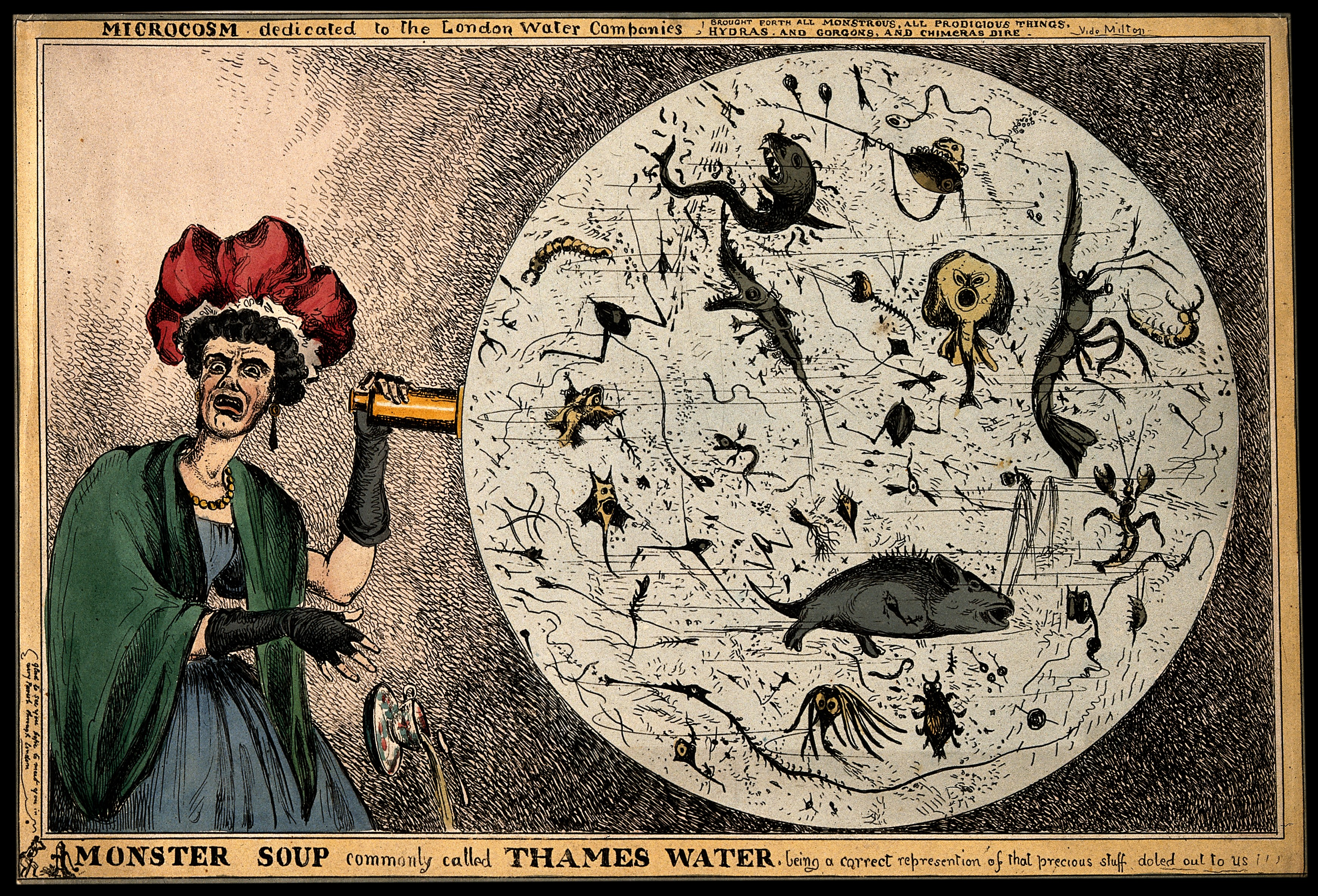 A woman dropping her tea-cup in horror upon discovering the monstrous contents of a magnified drop of Thames water; revealing the impurity of London drinking water. Coloured etching by W. Heath, 1828. Iconographic Collections Keywords: William Heath; metropolitan water board (lond; Metropolitan Water Board (London); heath, william {c.1795-1840}; SATIRE